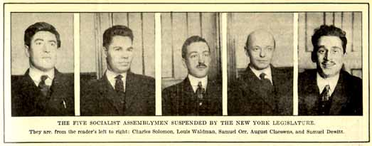 Five Socialist Assemblymen expelled by New York State Legislature